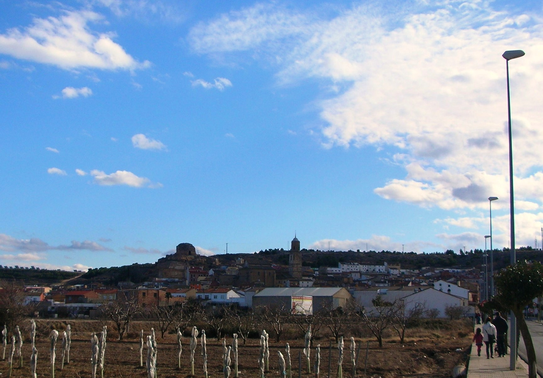 View of Ablitas, Navarre